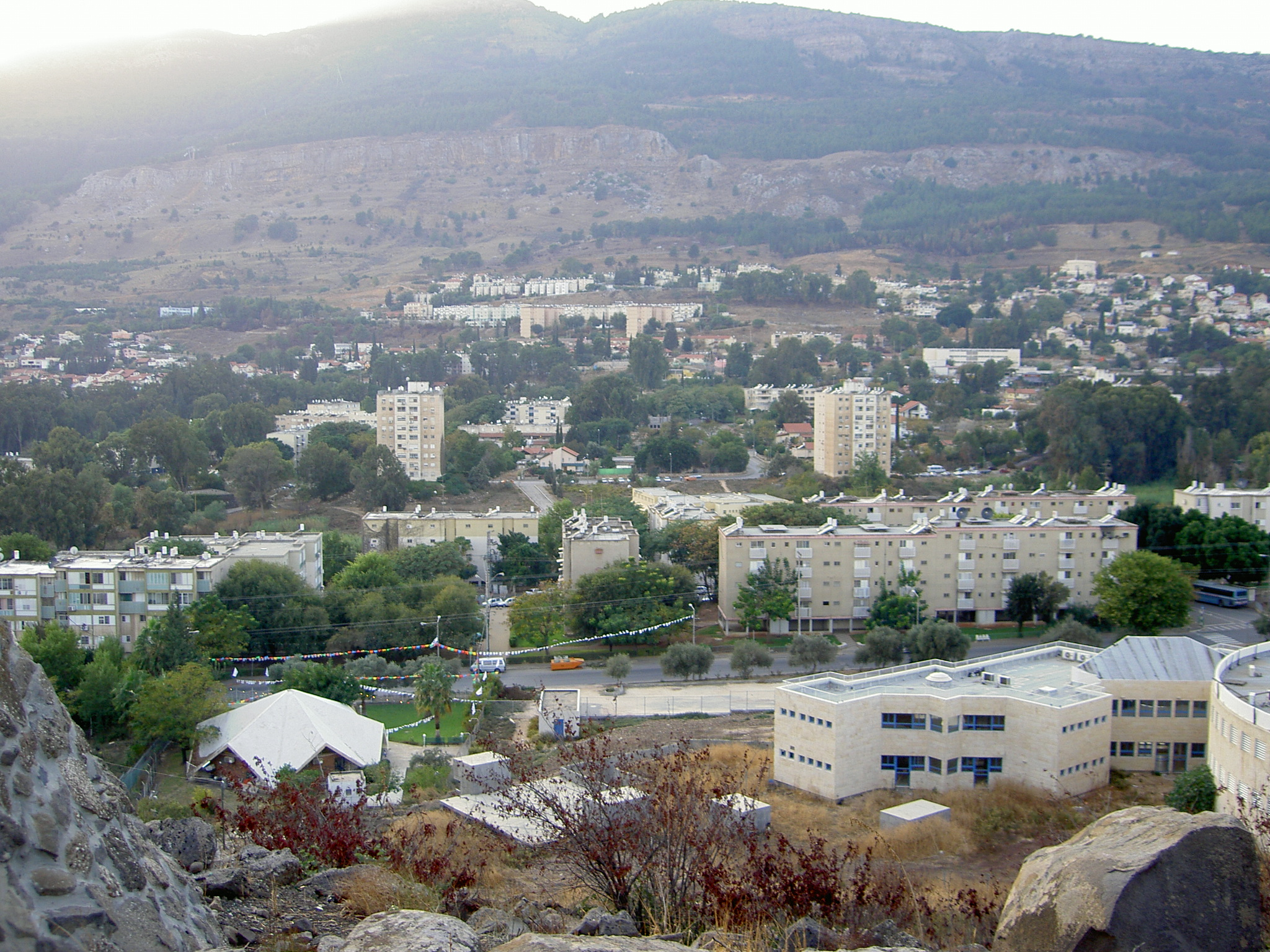 Givaat Shcumit view - Kiryat Shmona